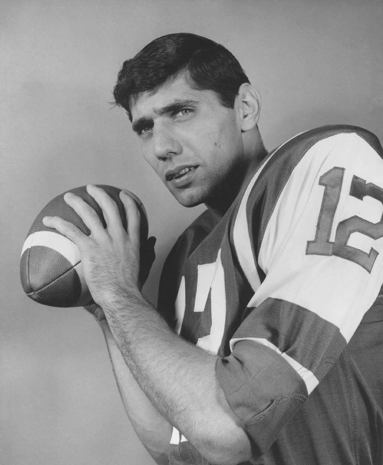 Joe Namath in 1965. Jet Stream was published without a copyright notice.